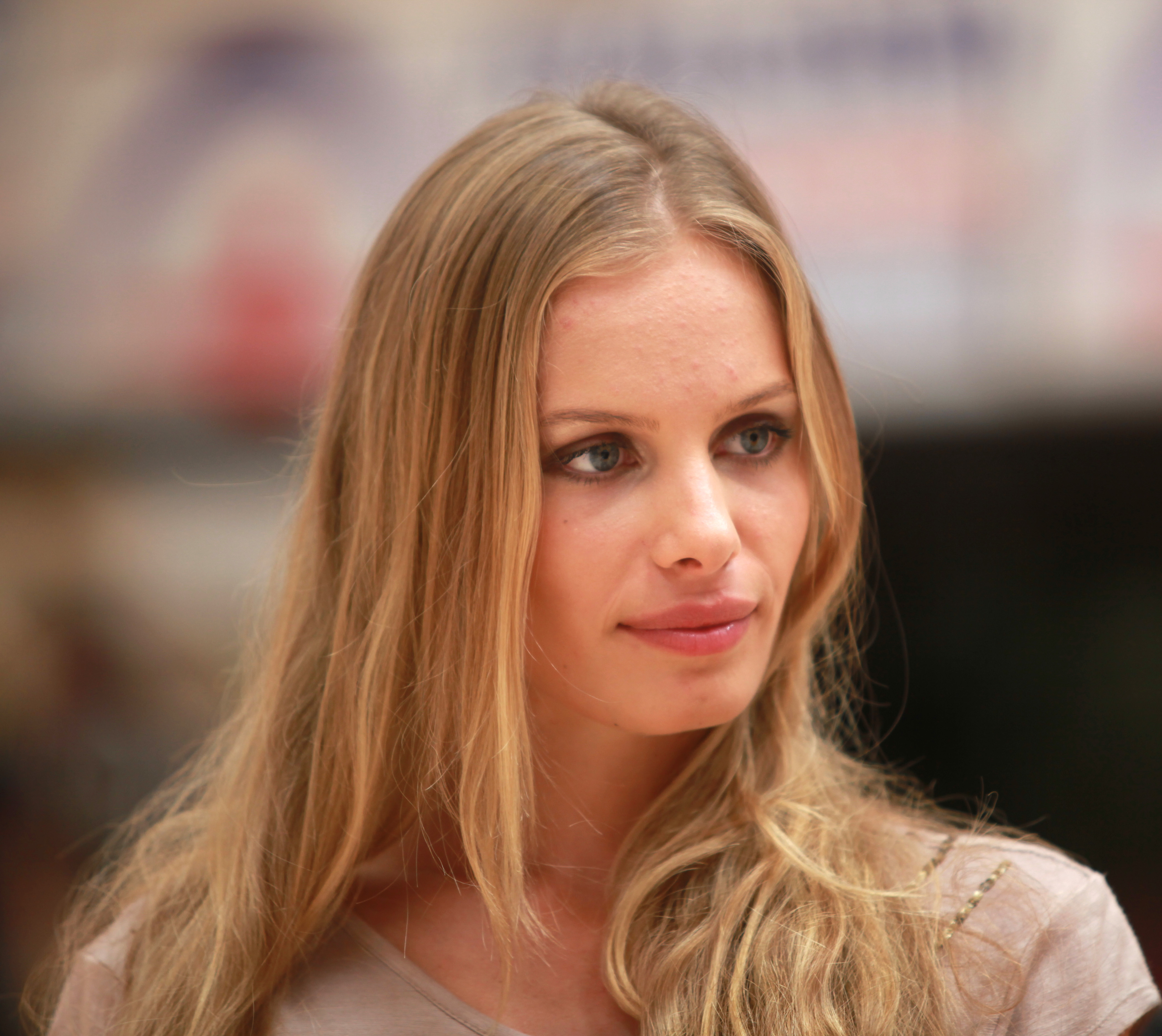 Jana Beller, "Germany's next Topmodel", on August 20th, 2011 in Ehingen (Germany).